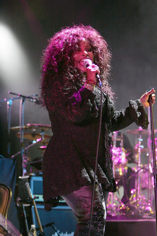 Dwight McCann, Attribution: Dwight McCann / Chumash Casino Resort /